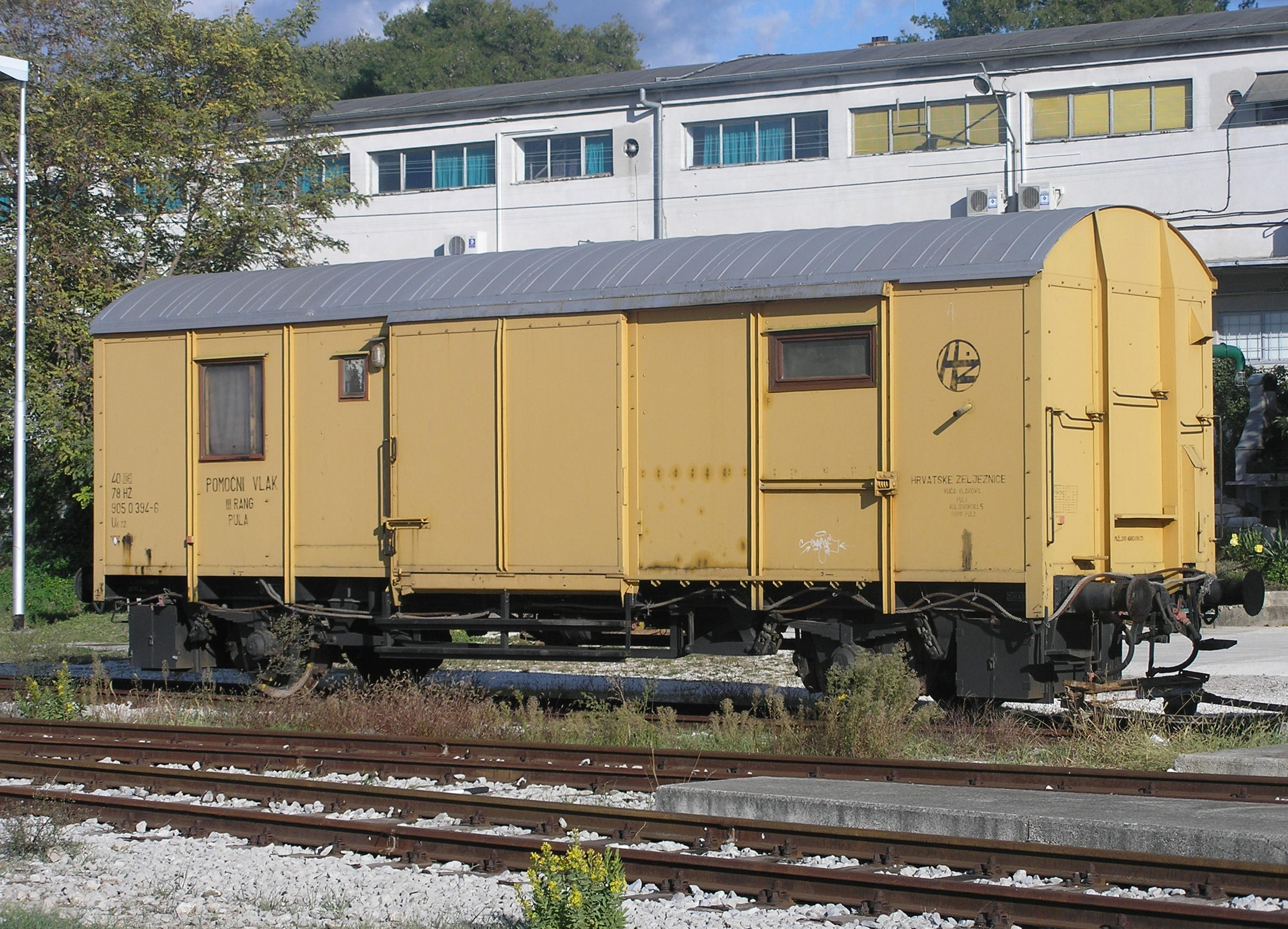 HŽ utility car